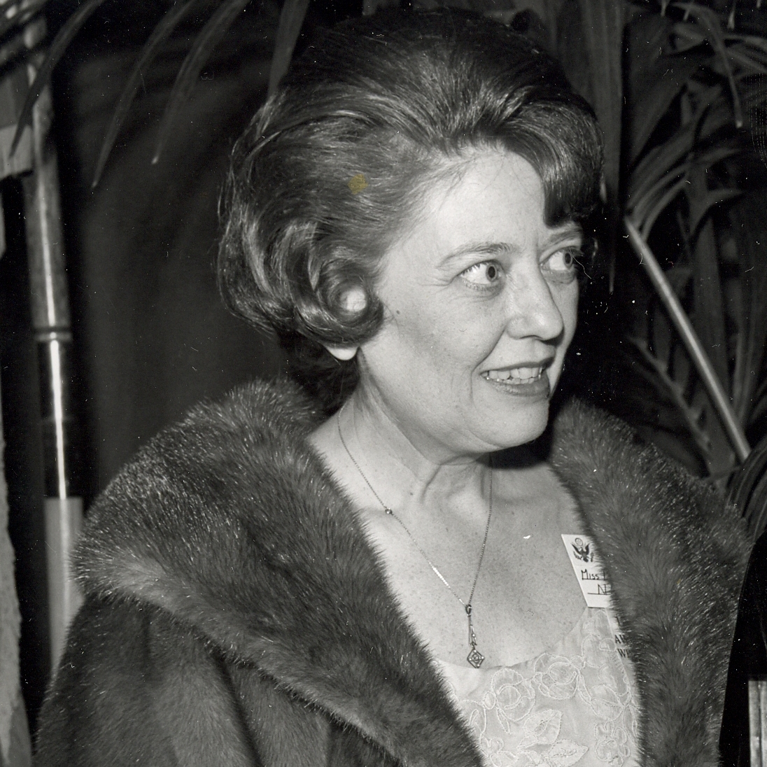 Dr. Evelyn Anderson (center) wins a 1964 Federal Woman's Award. She was the third NASA woman to win the award, and is joined by the two previous NASA awardees: Eleanor Pressly (left) and Dr. Nancy Grace Roman (right). Dr. Anderson (1899–1985) headed a research unit on neuroendocrinology at NASA's Ames Research Center from 1962–1969. Eleanor Pressly won a 1963 Federal Woman's Award for her pioneering work in the development of sounding rockets and was the Head of the Vehicles Section of the Spacecraft Integration and Sounding Rocket Division at NASA's Goddard Space Flight Center. Dr. Nancy Grace Roman won a 1962 Federal Woman's Award and was NASA's first Chief of Astronomy. Credit: NASA